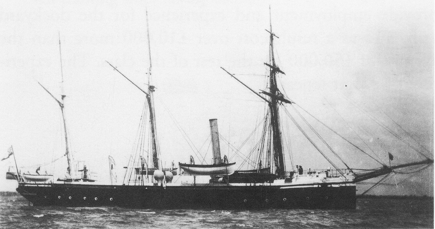 HMS Watchful (1873)